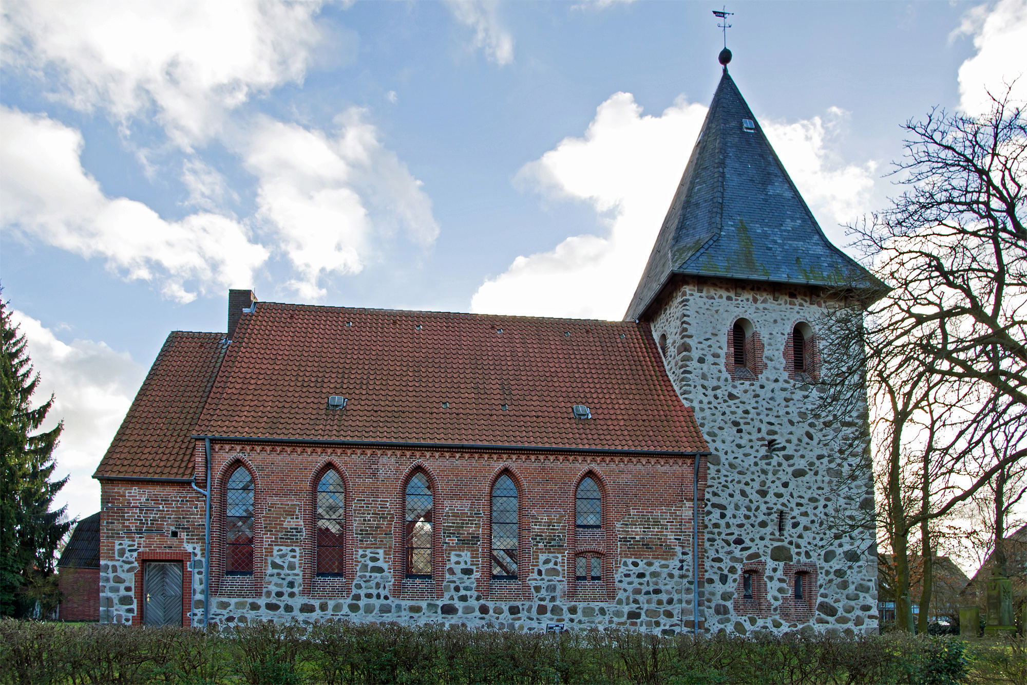 Church of the small village Bösel (district Lüchow-Dannenberg, northern Germany).